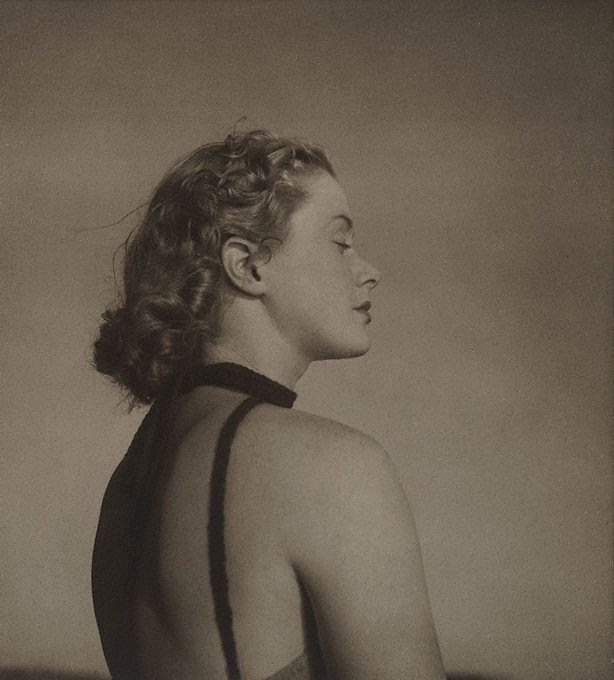 Modernist photograph of a young model at a fashion shoot, taken by Olive Cotton